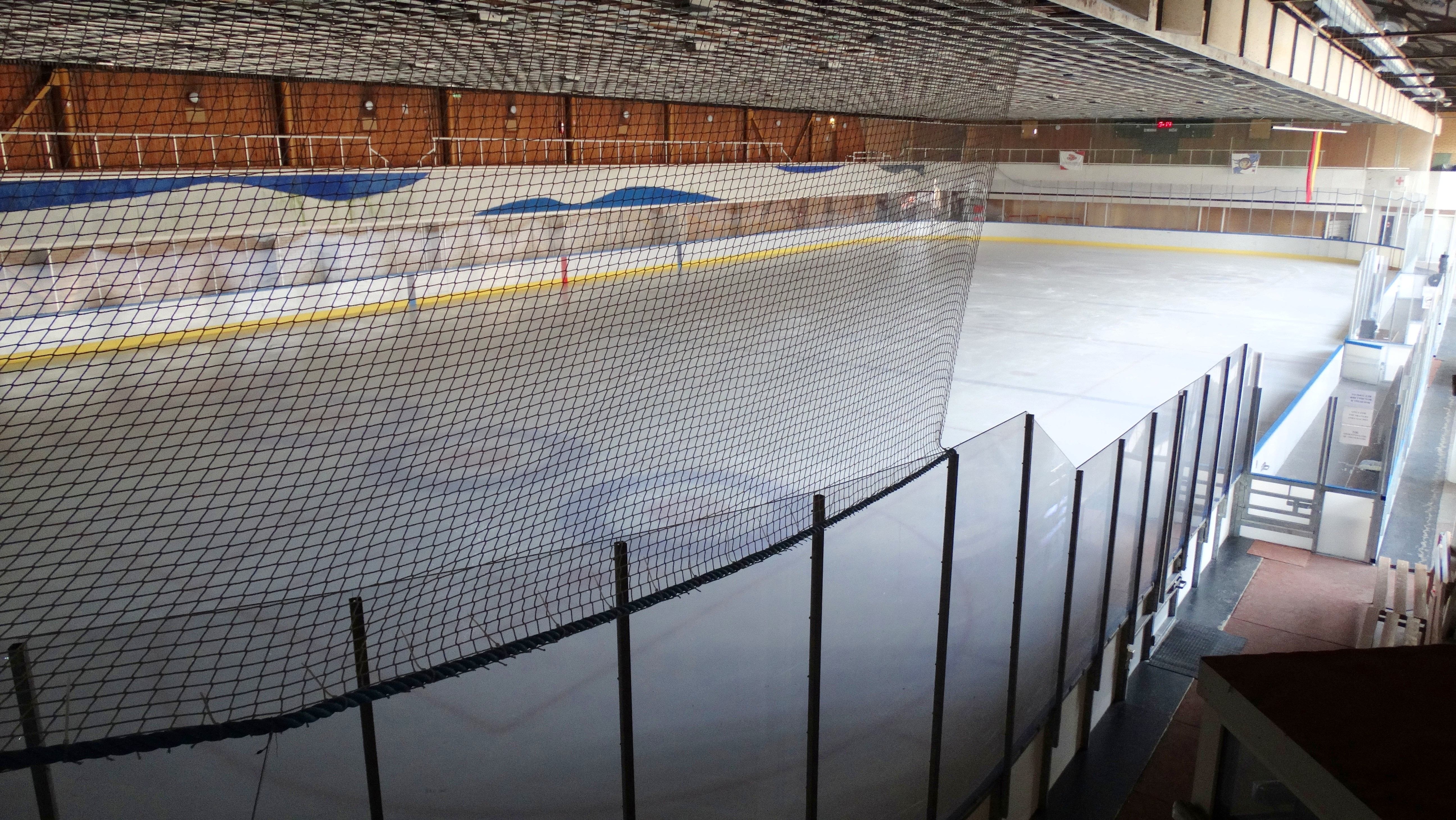 Ice arena, Kaunas, Lithuania